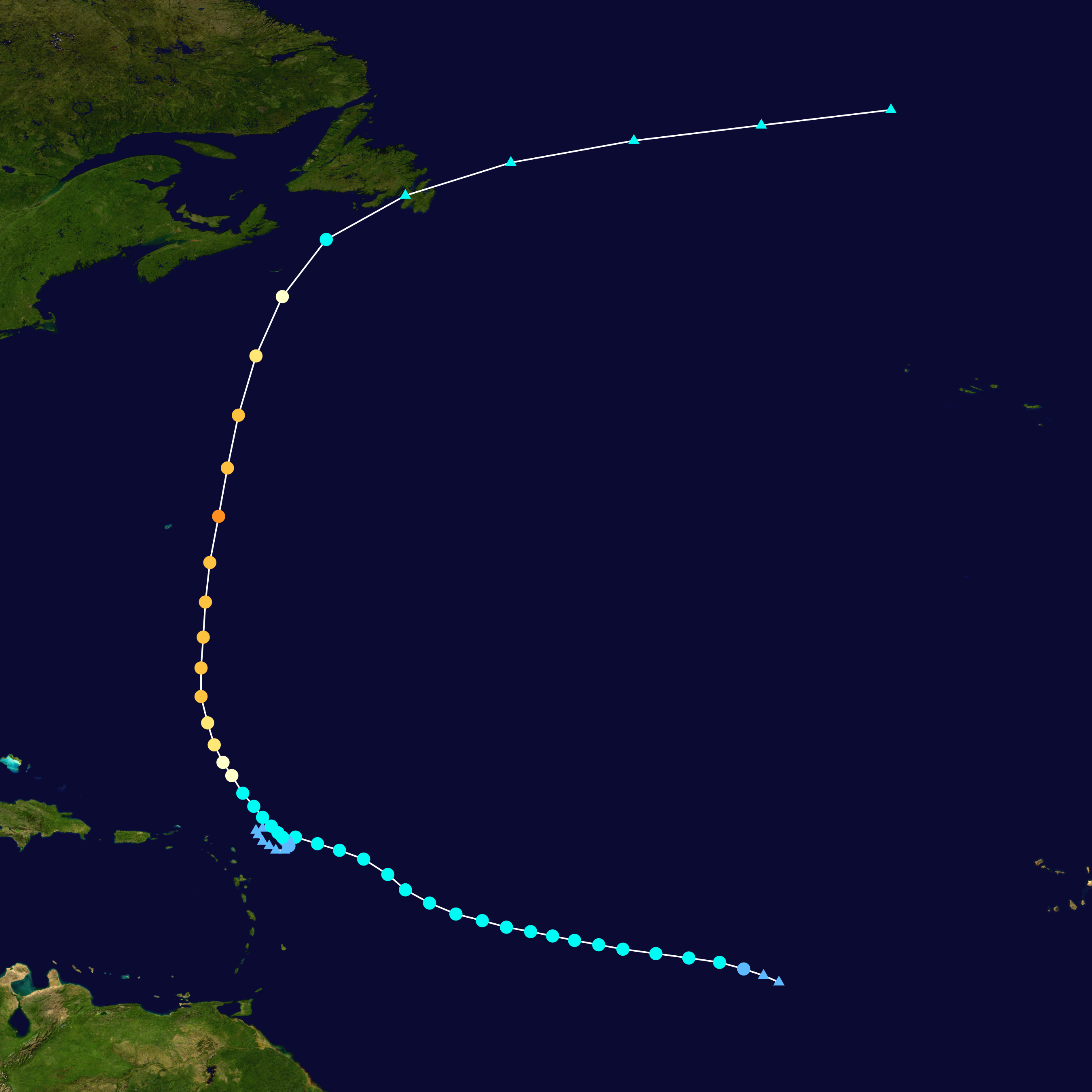 Track map of Hurricane Ophelia of the 2011 Atlantic hurricane season. The points show the location of the storm at 6-hour intervals. The colour represents the storm's maximum sustained wind speeds as classified in the Saffir–Simpson scale (see below), and the shape of the data points represent the nature of the storm, according to the legend below. Saffir–Simpson scale Tropical depression≤38 mph≤62 km/h Category 3111–129 mph178–208 km/h Tropical storm39–73 mph63–118 km/h Category 4130–156 mph209–251 km/h Category 174–95 mph119–153 km/h Category 5≥157 mph≥252 km/h Category 296–110 mph154–177 km/h Unknown Storm type Tropical cyclone Subtropical cyclone Extratropical cyclone / Remnant low / Tropical disturbance / Monsoon depression